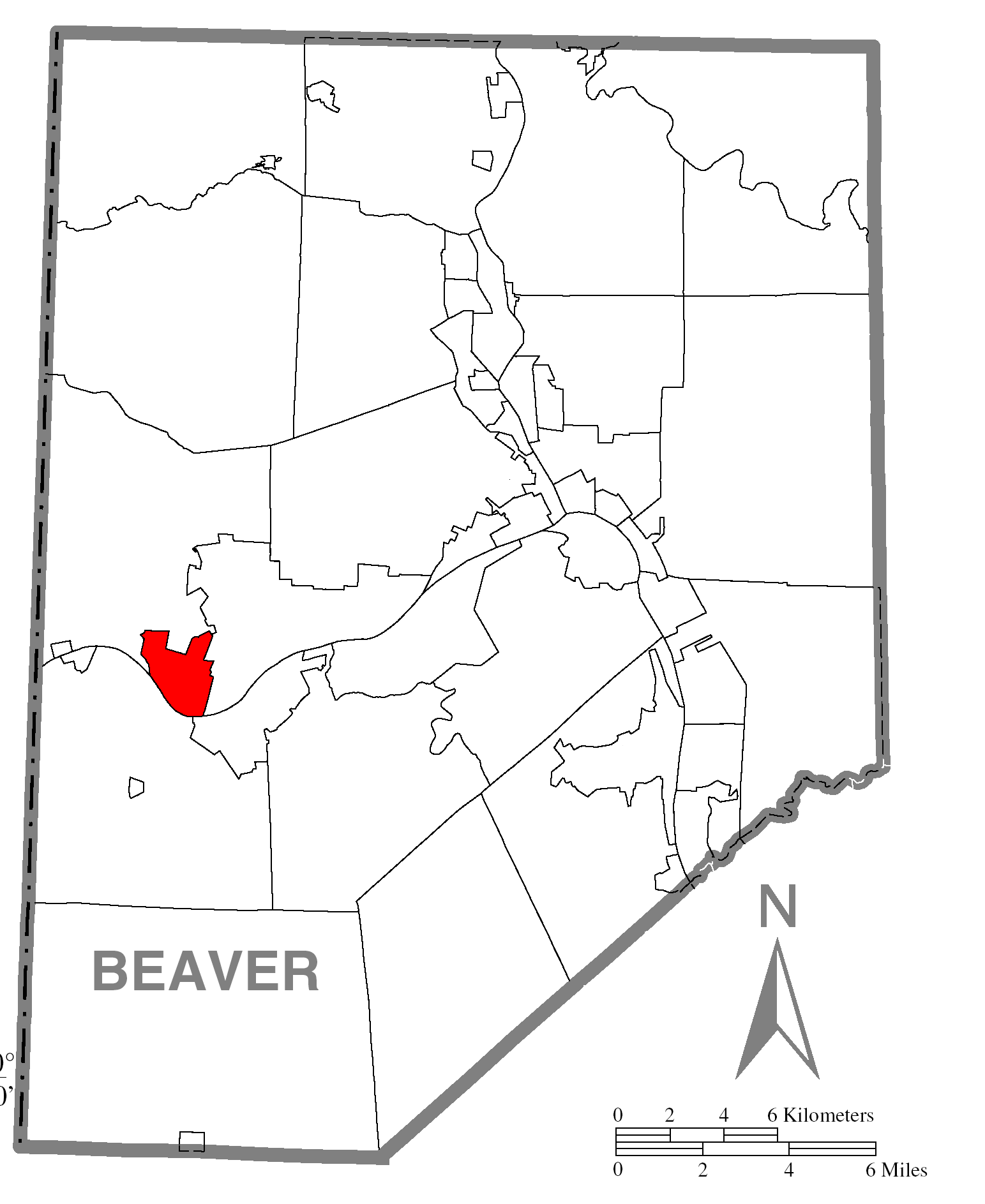 A map of Beaver County showing Midland, Pennsylvania (alternate) highlighted on the map.